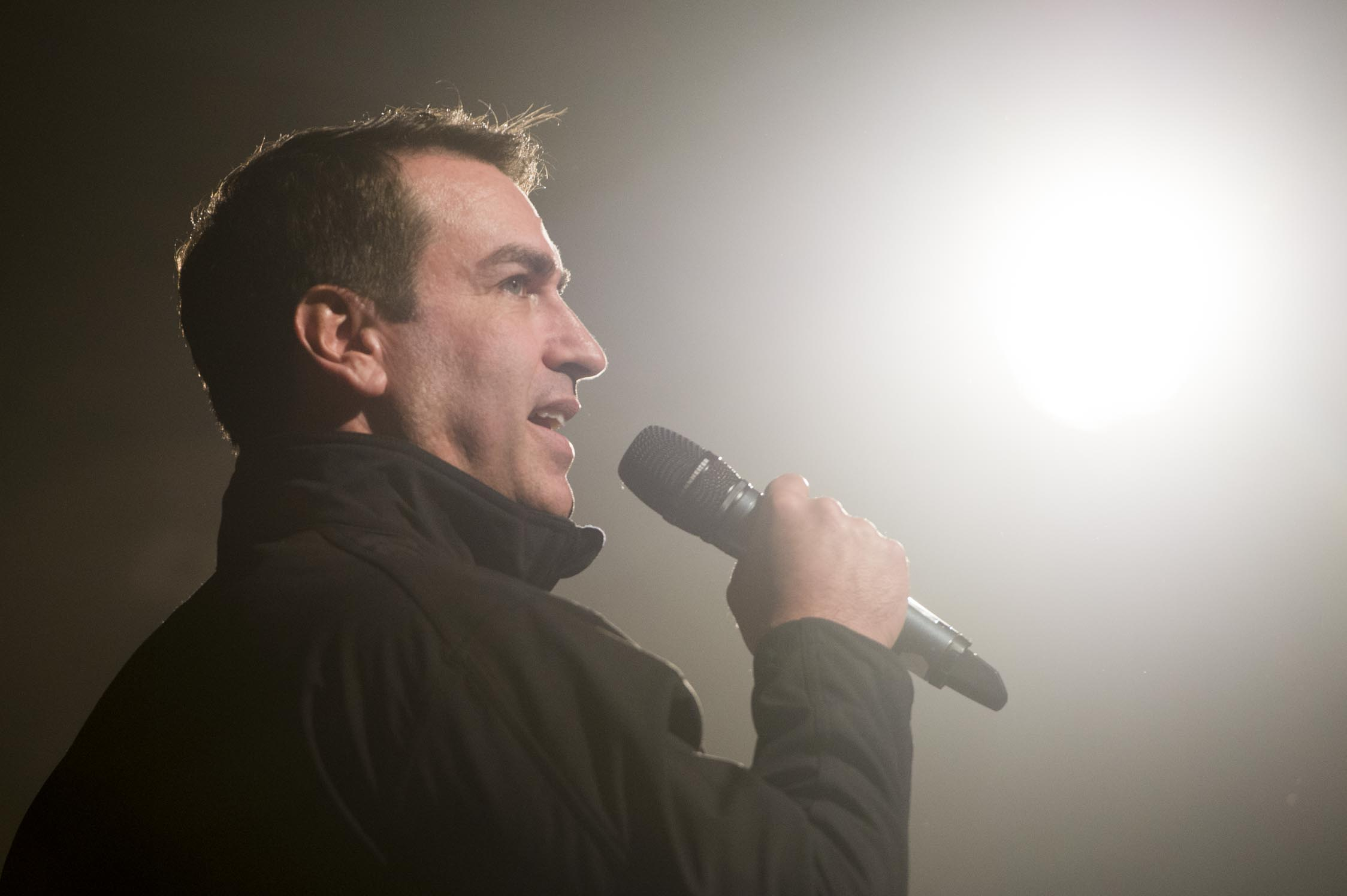 Actor and comedian Rob Riggle performs during a USO show for US service members and their families stationed at Rota Naval Air Station, Spain, Dec. 6, 2014. (DOD photo by D. Myles Cullen/Released)